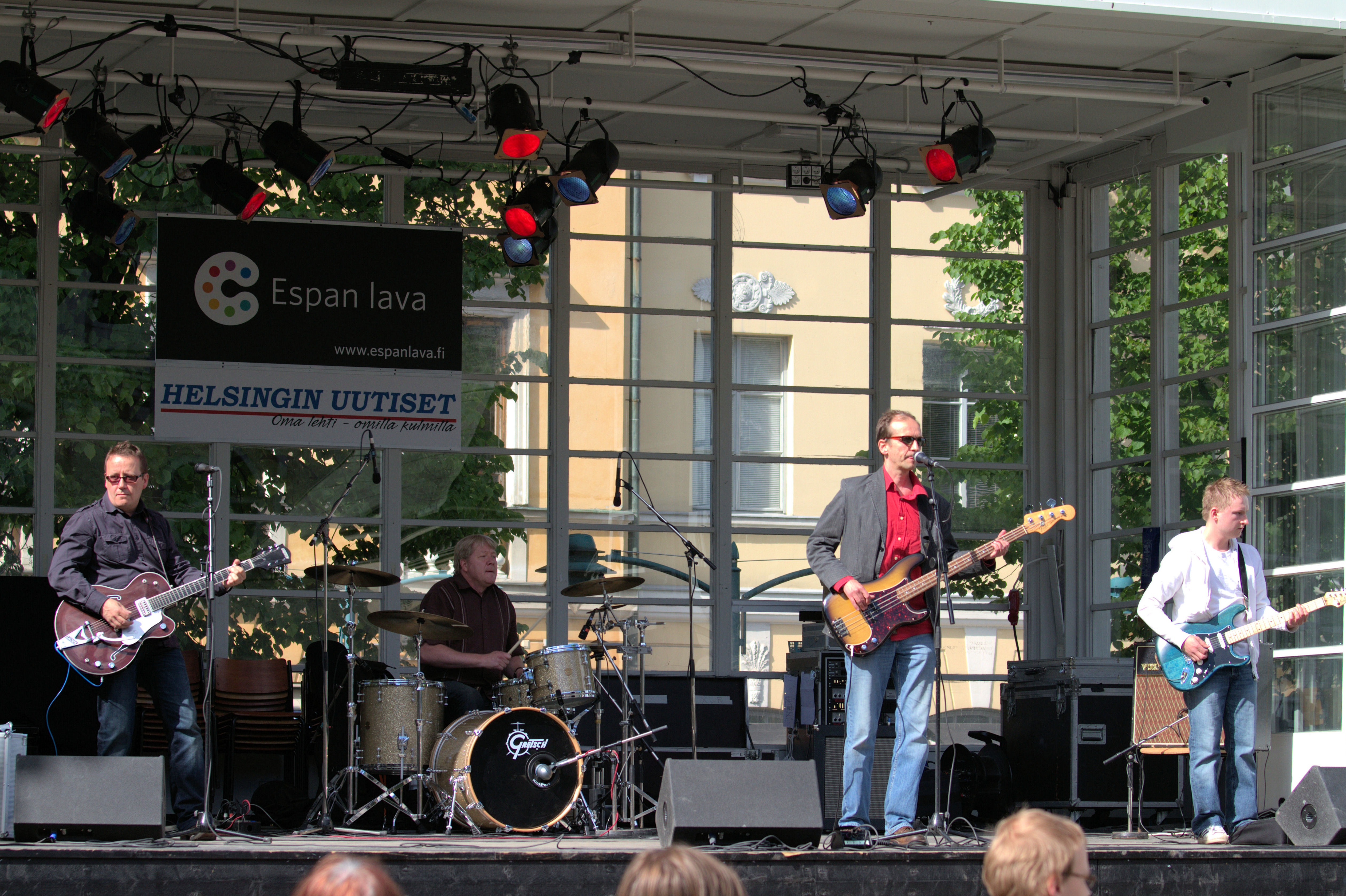 Mieskone finnish pop group